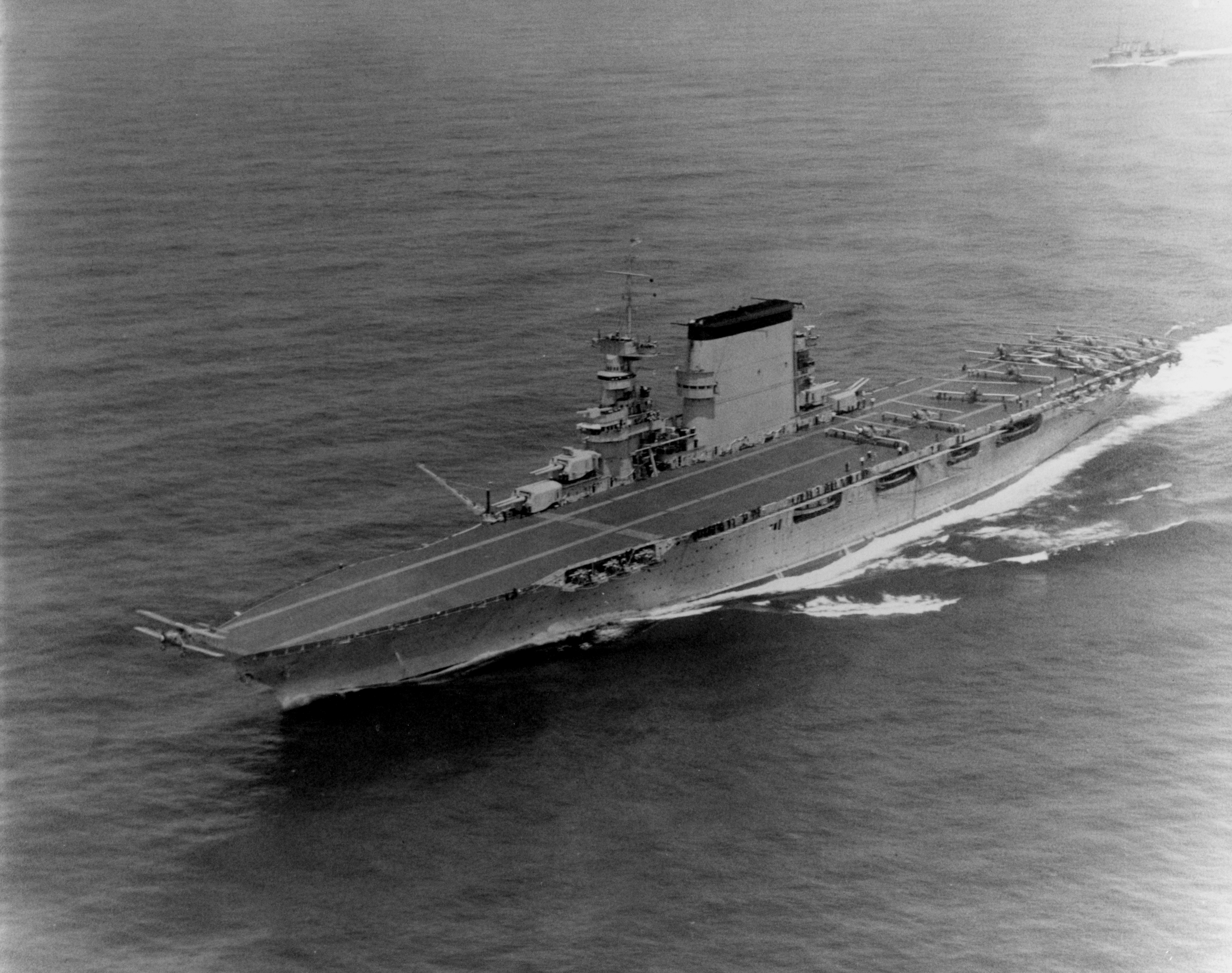 U.S. Navy Martin T4M-1 aircraft of Torpedo Squadron 1B (VT-1B) are launching from the deck of the aircraft carrier USS Lexington (CV-2) in 1931. Note the "four-stacker" (Clemson/Wickes-class destroyer) in the upper right corner.